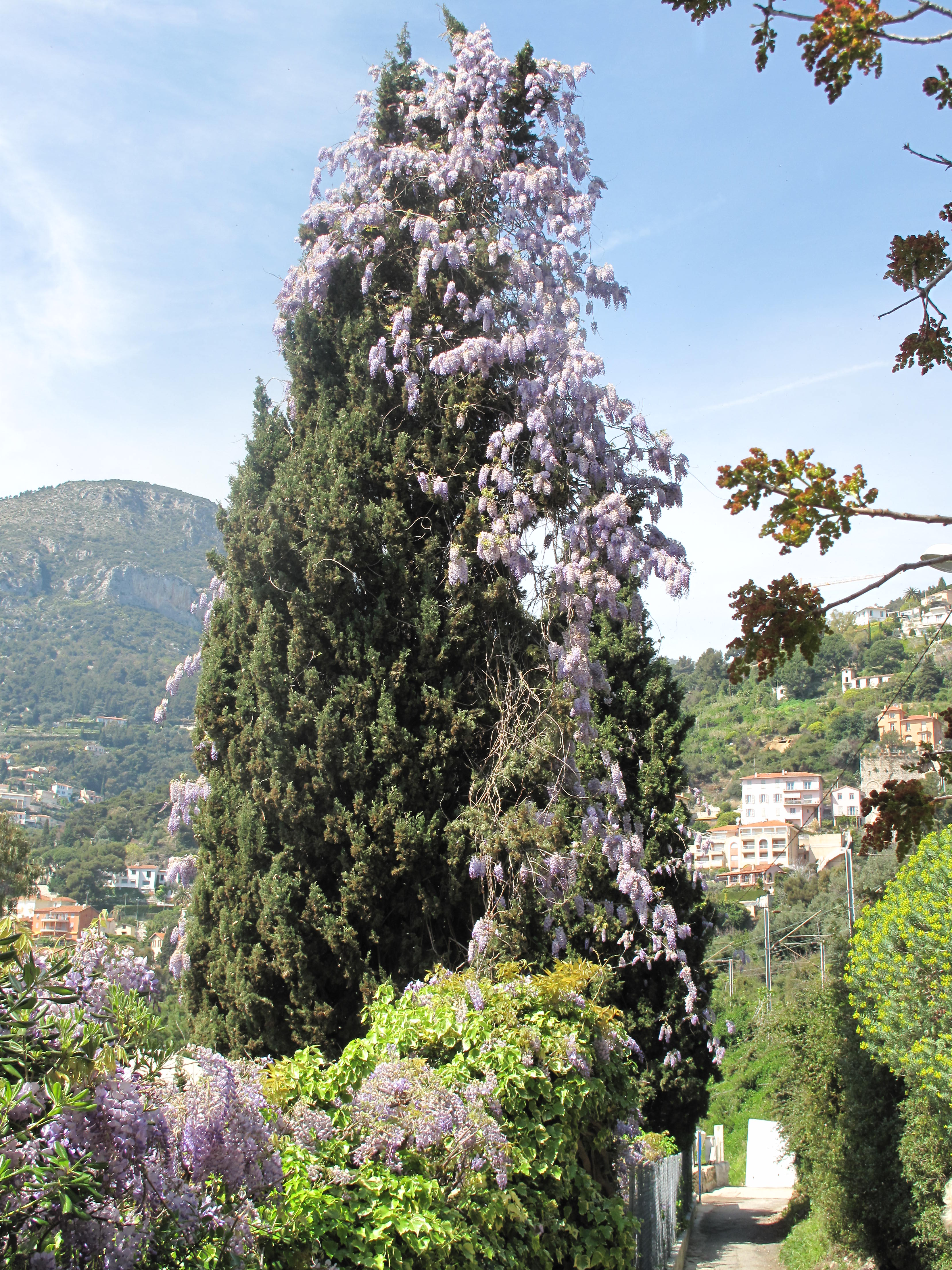 Wisteria climbing in a tree at Roquebrune, near the cabin of le Corbusier, Alpes-Maritimes, France.